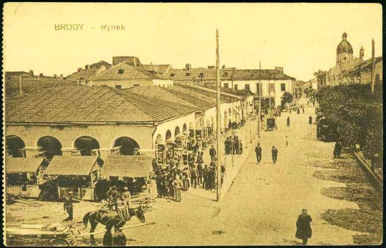 Market square of Brody (city in Lviv region of western UKRAINE) in 1904 (when it was part of Austro-Hungarian empire still). Brody in western Ukraine - eastern Galicia.